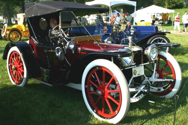 1913 American Underslung photographed by DougW of at the 2005 Concours d'Elegance in Meadow Brook, MI.